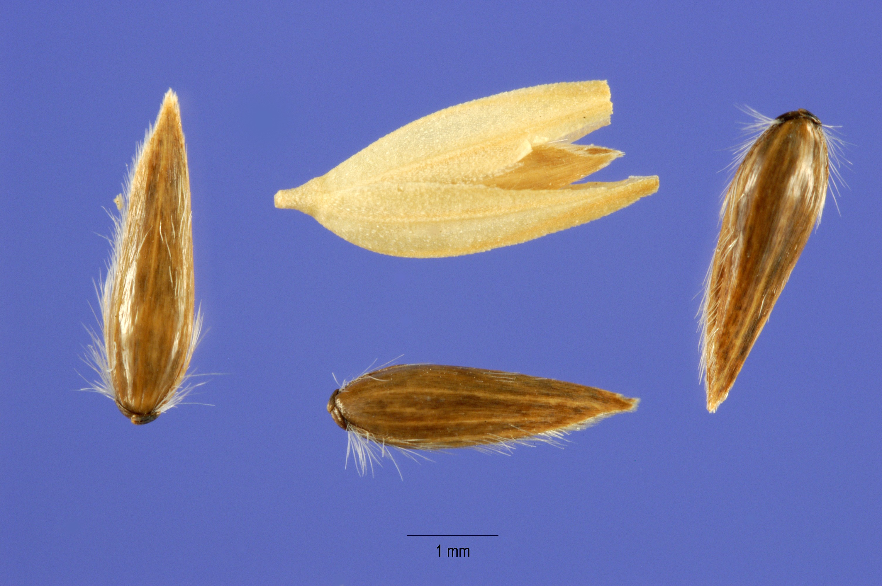 Phalaris arundinacea seeds